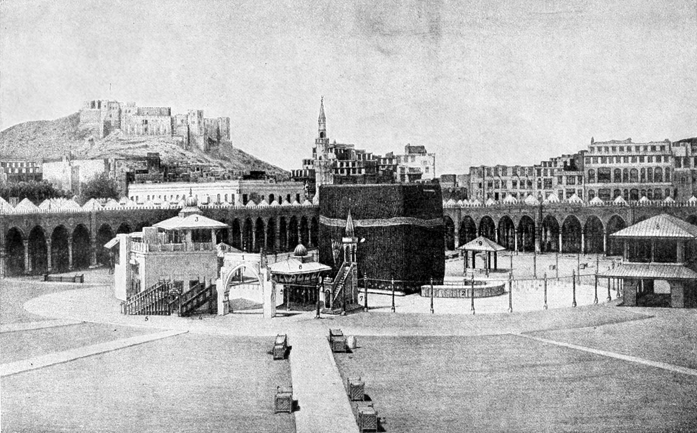 Photograph of the Kaaba and environs with number labels.